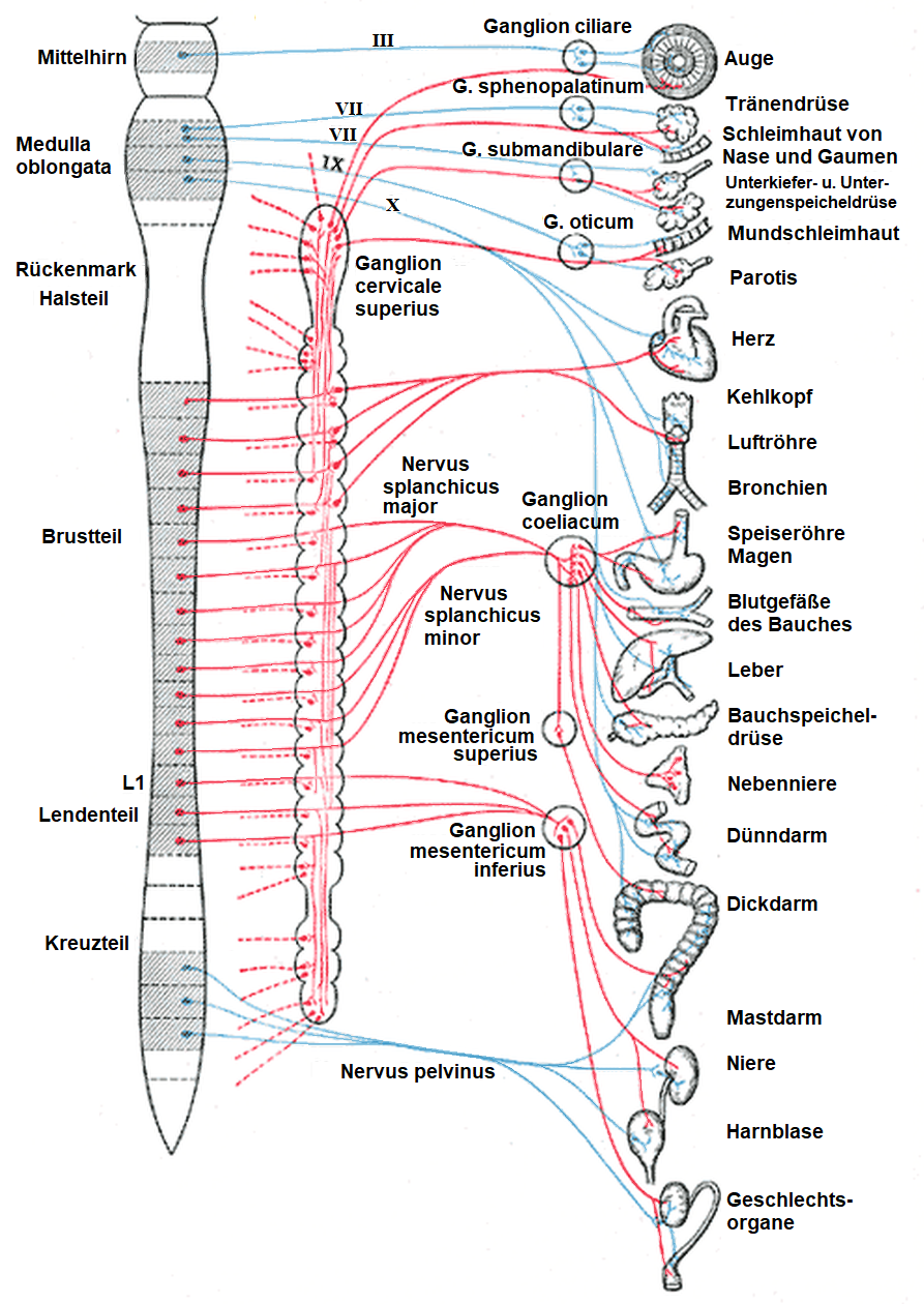 Diagram of efferent sympathetic nervous system.